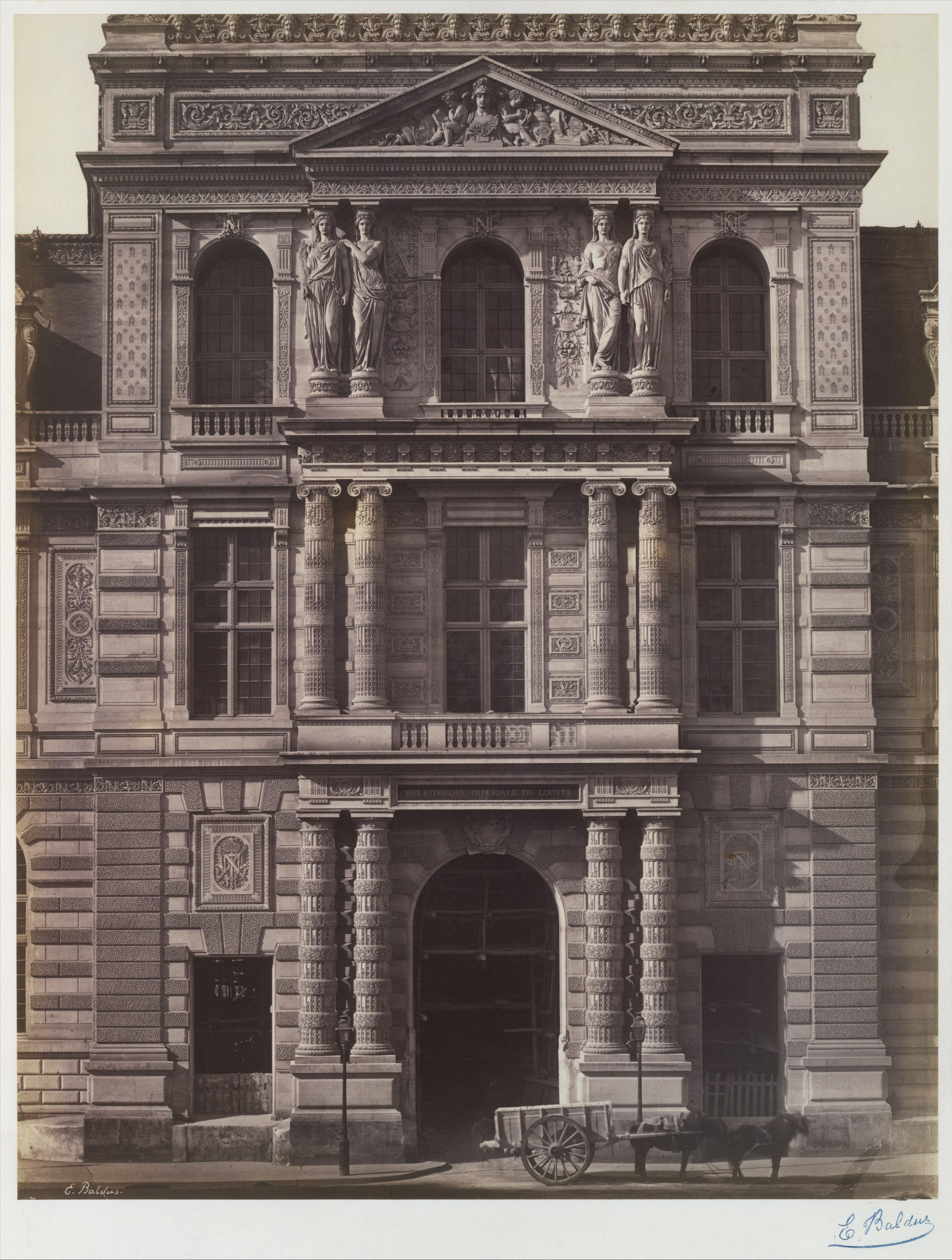 Imperial Library of the Louvre. Salted paper print from glass negative. 17 1/4 x 13 7/16 in. (43.9 x 34.2 cm). Purchase, The Horace W. Goldsmith Foundation Gift through Joyce and Robert Menschel, 1994 (1994.137). - Currrent Pavillon de la Bibliothèque, north façade of the Palais du Louvre, rue de Rivoli, Ier arrondissement, Paris, France.